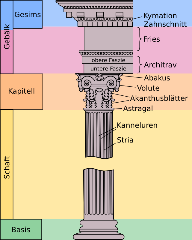 composite column